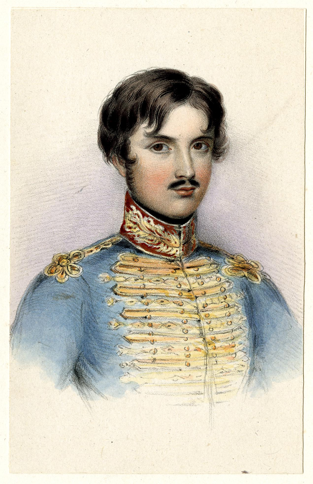 Self-portrait of Lieutenant Vincent Eyre, nearly half-length to right, looking to left; wearing military uniform with epaulettes; image mounted on card; after Eyre. Lithograph with hand-colouring